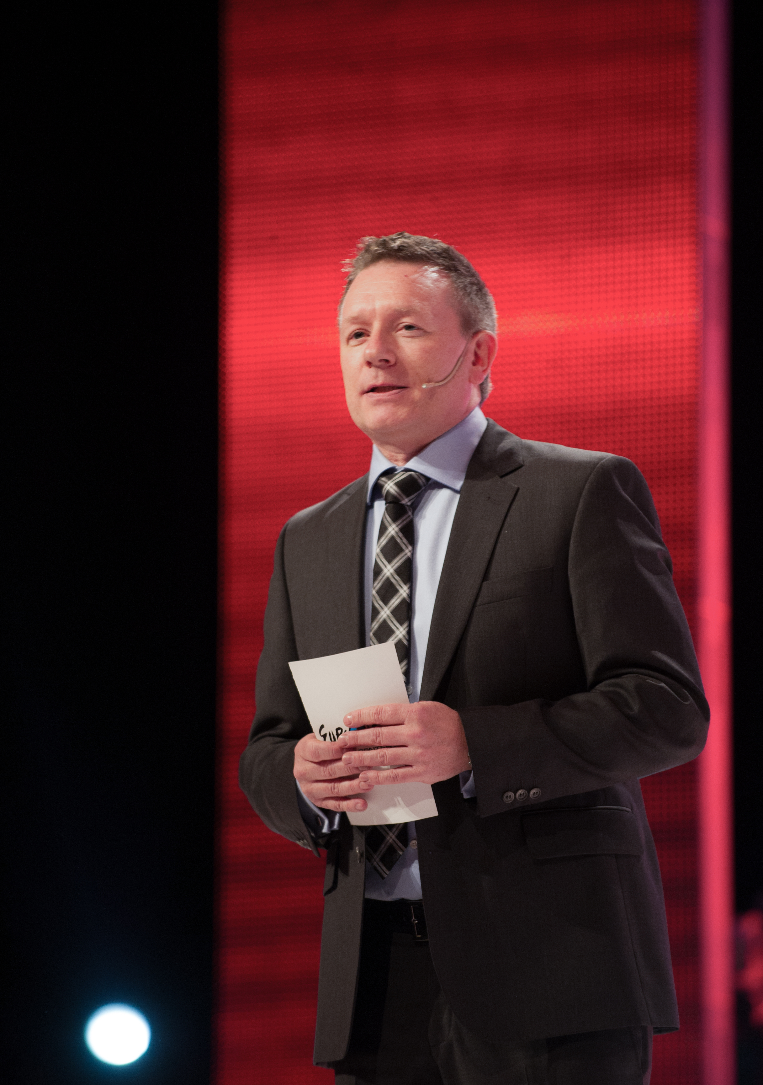 Jon Ola Sand